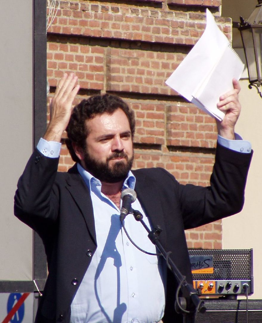 Piero Ricca, Italian activist and blogger, in Turin 2007 V-Day